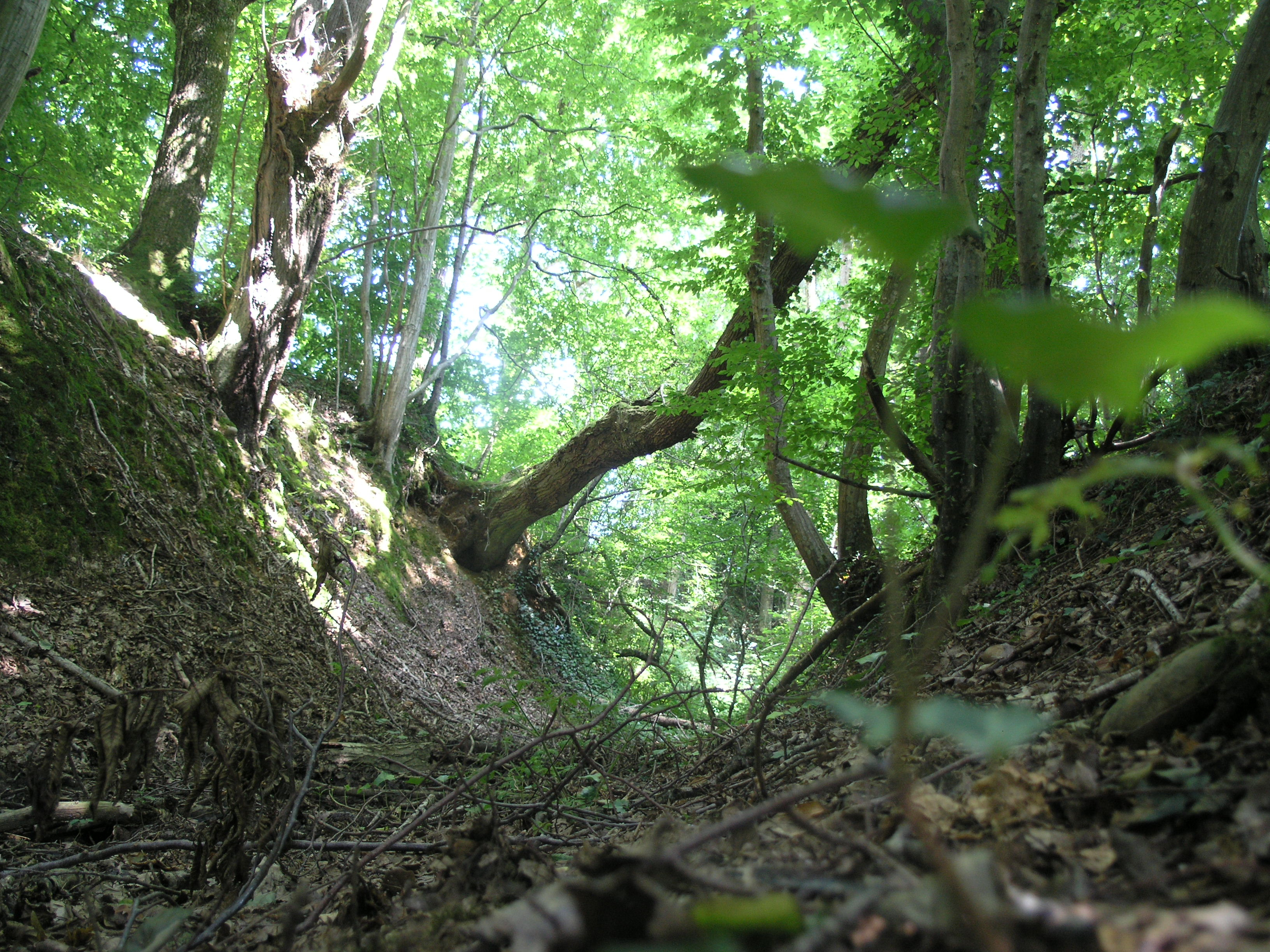 Bois de Saint-Guignefort, Sandrans, Dépt. Ain, France